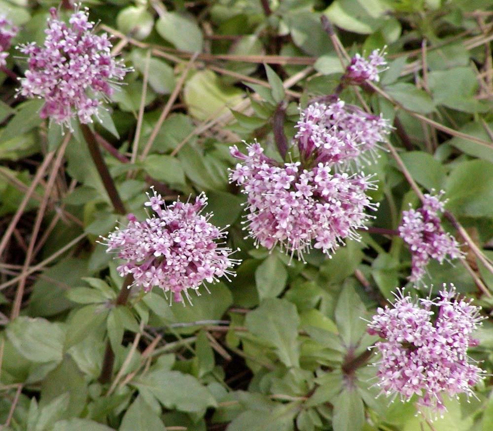 Photo of Valeriana arizonica at Flagstaff arboretum